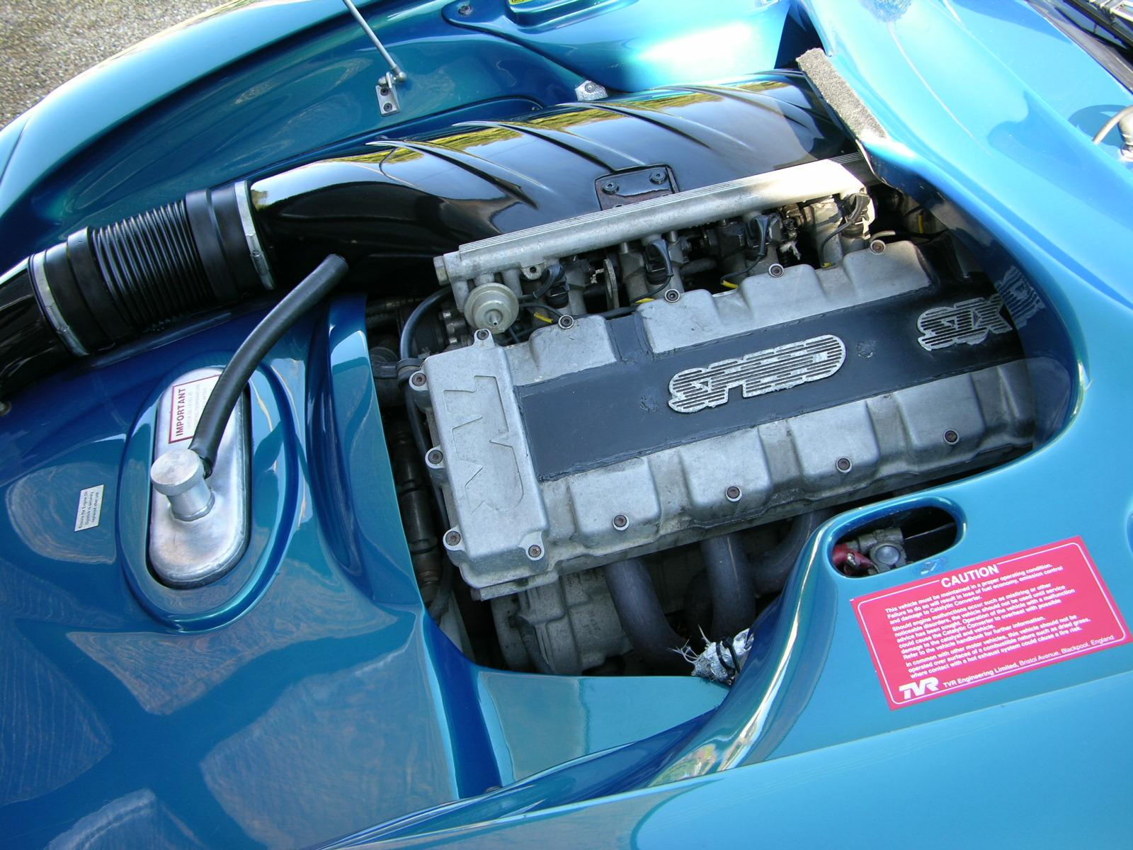 TVR Cerbera Speed Six.